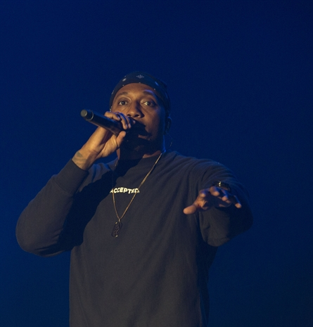 The Christian hip hop artist Lecrae performs “Broke” during a free concert held at Marine Corps Air Station Iwakuni, Japan, Jan. 9, 2018, as part of his Armed Forces Entertainment tour